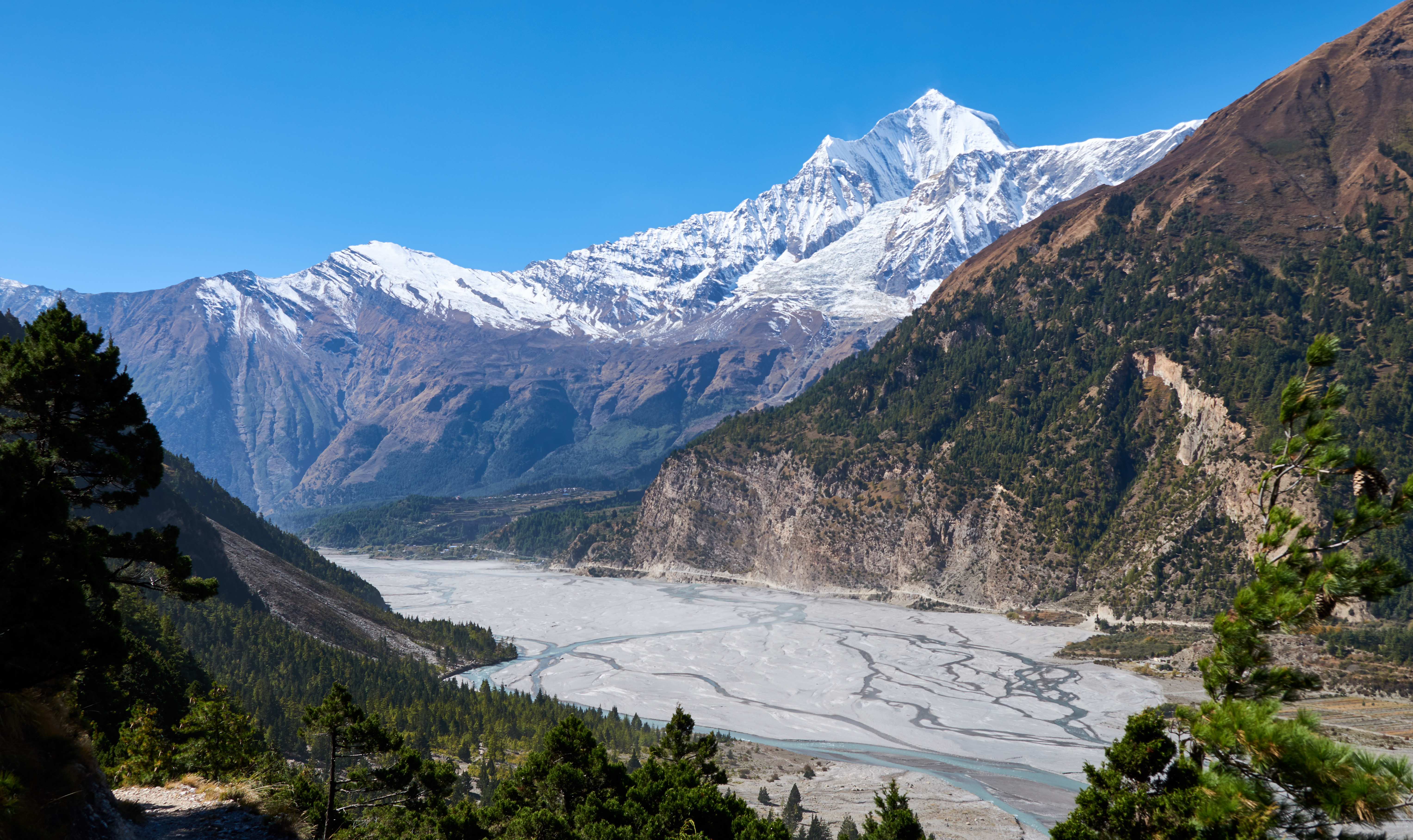 Dhaulagiri and Kali-Gandaki river valley